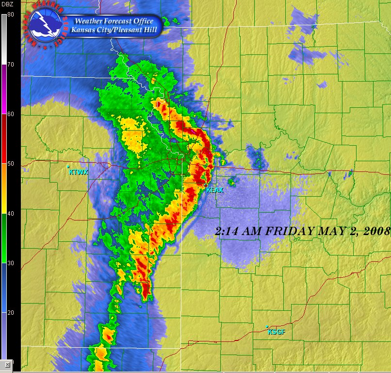 Radar image of the bow echo that crossed the Kansas City Metropolitan Area during the early hours of May 2, 2008. The shot was taken approximately 2 AM CDT on May 2 or at the same time the bow echo is crossing the Kansas-Missouri state line in Kansas City. Courtesy of NWS Kansas City